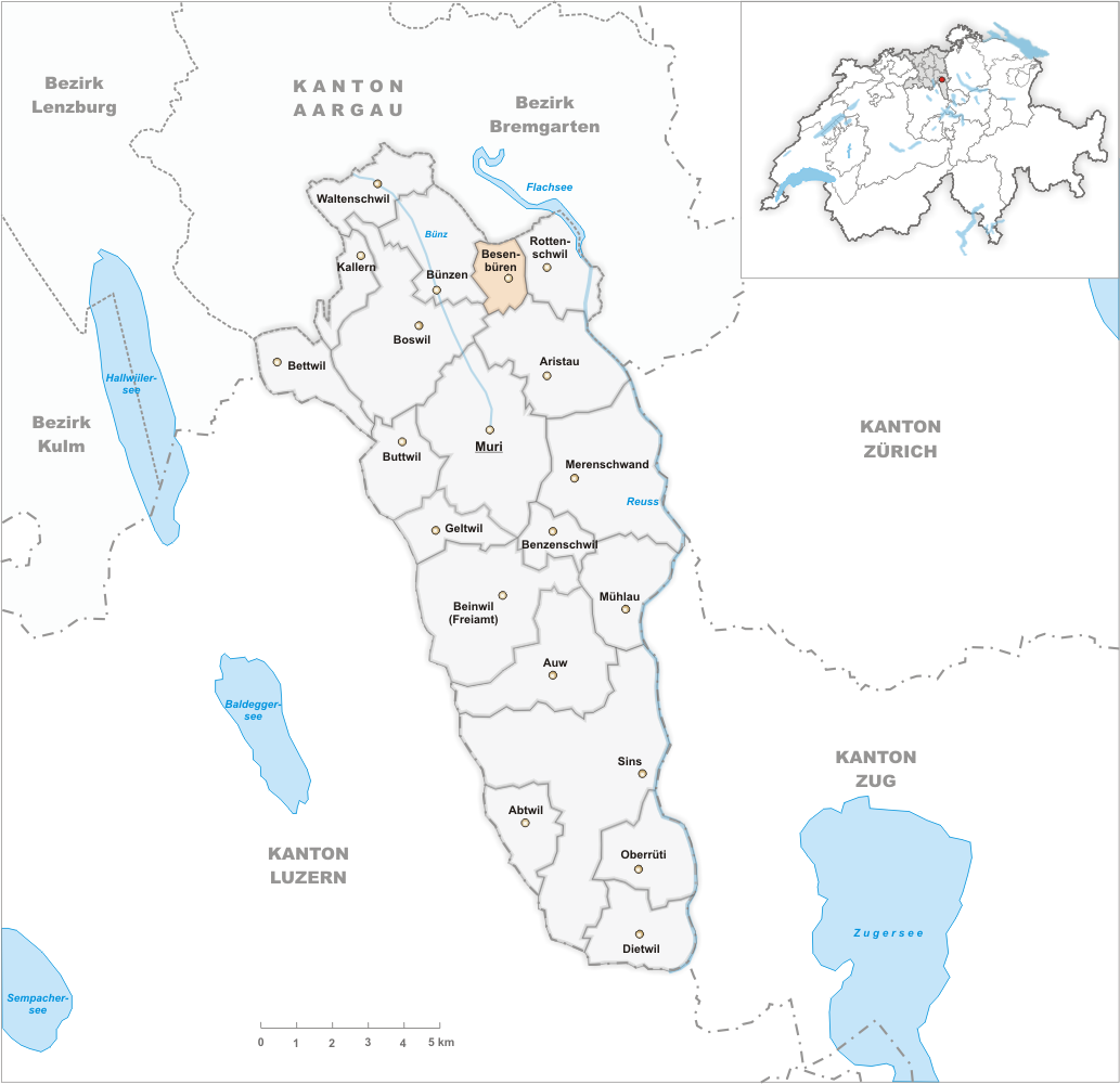 Municipality Besenbüren